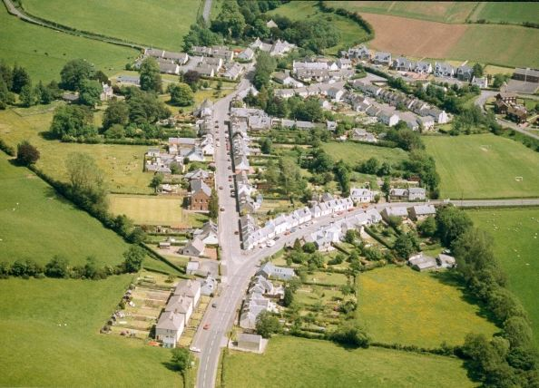 Kirkmichael, South Ayrshire, Scotland. Seen from the air from a point west of the village.